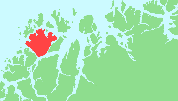 Locator map of Ringvassøy, Troms, Norway